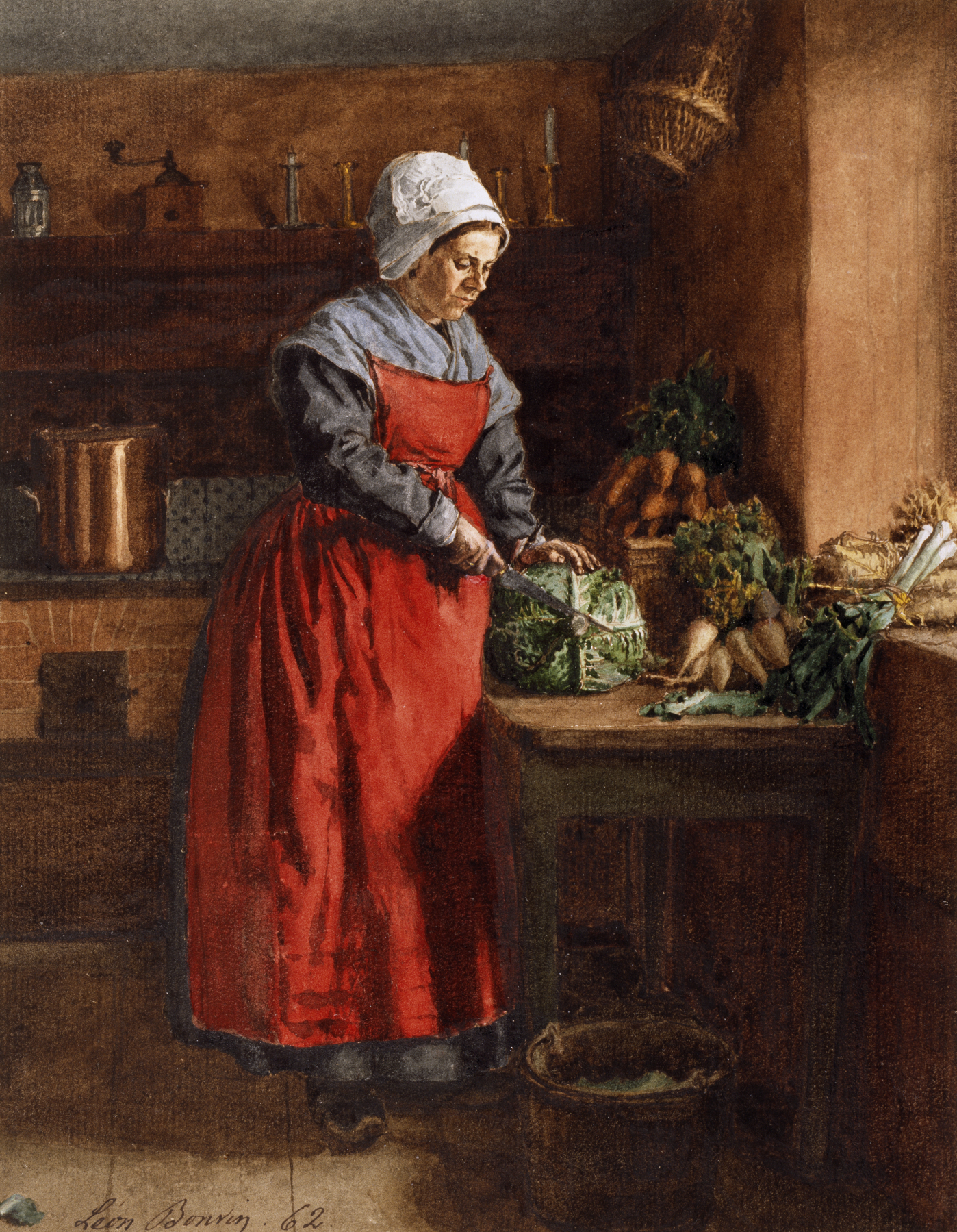 In this scene, a cook wearing a vermilion apron is chopping a large cabbage. Commonplace vegetables are strewn in front of her, including turnips, leeks, celery roots, carrots, and lettuce. The model has been identified as the artist's wife, Constance Félicité Gaudon, and the location as the family's small tavern in Vaugirard. Light from a window at the right penetrates the scene to reveal details in the background including the hanging basket and the shelf with a row of candlesticks, a coffee mill, and a lantern. Placed on the stove is a large, glimmering copper pot.